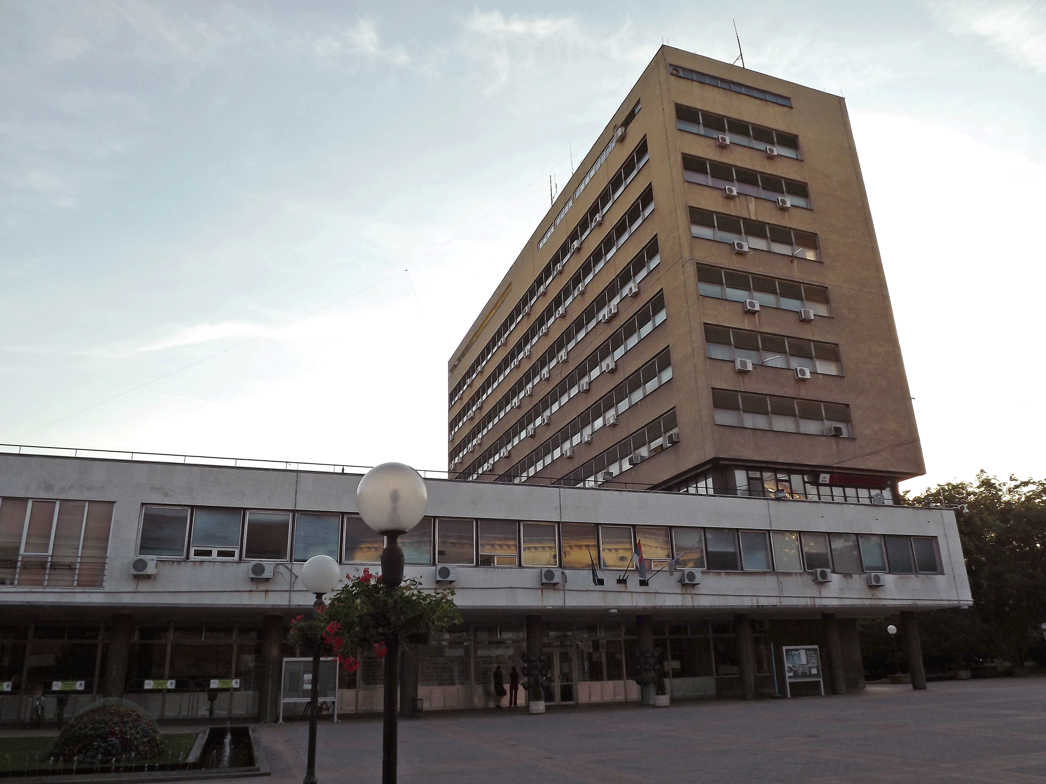 Main municipal building in Pančevo